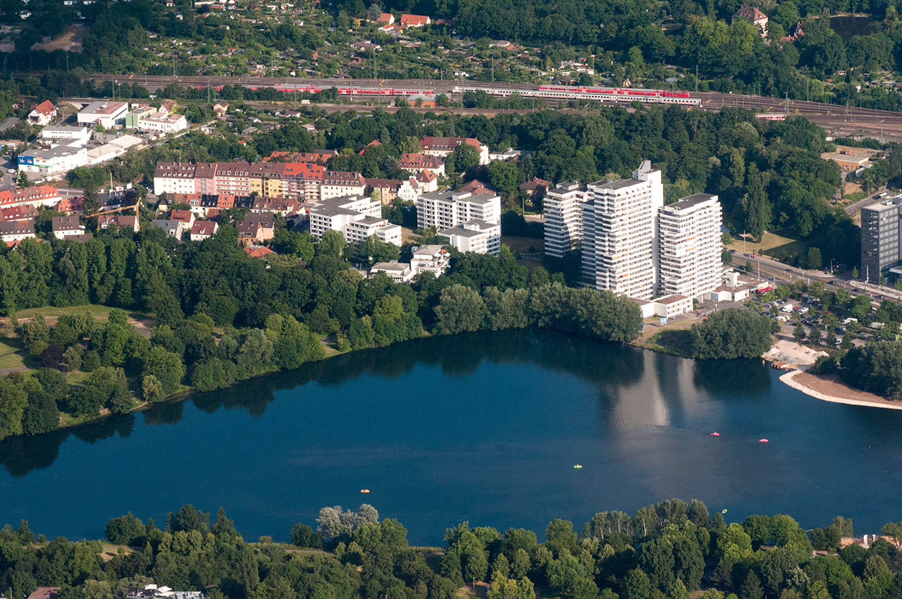 Aerial photography of the Wöhrder See and Norikus in Nuremberg, Germany